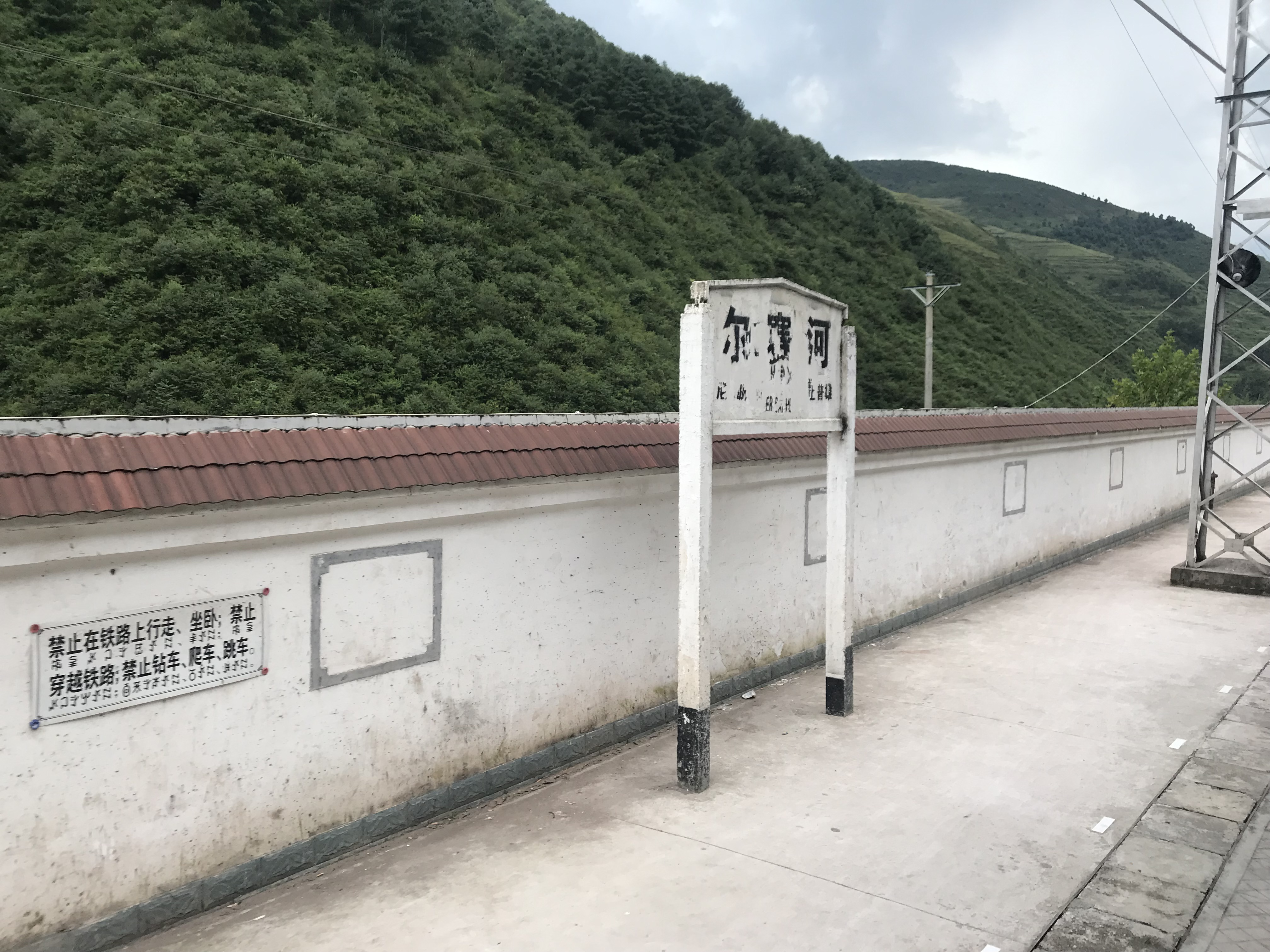 201908 Nameboard of Ersaihe Station (2)